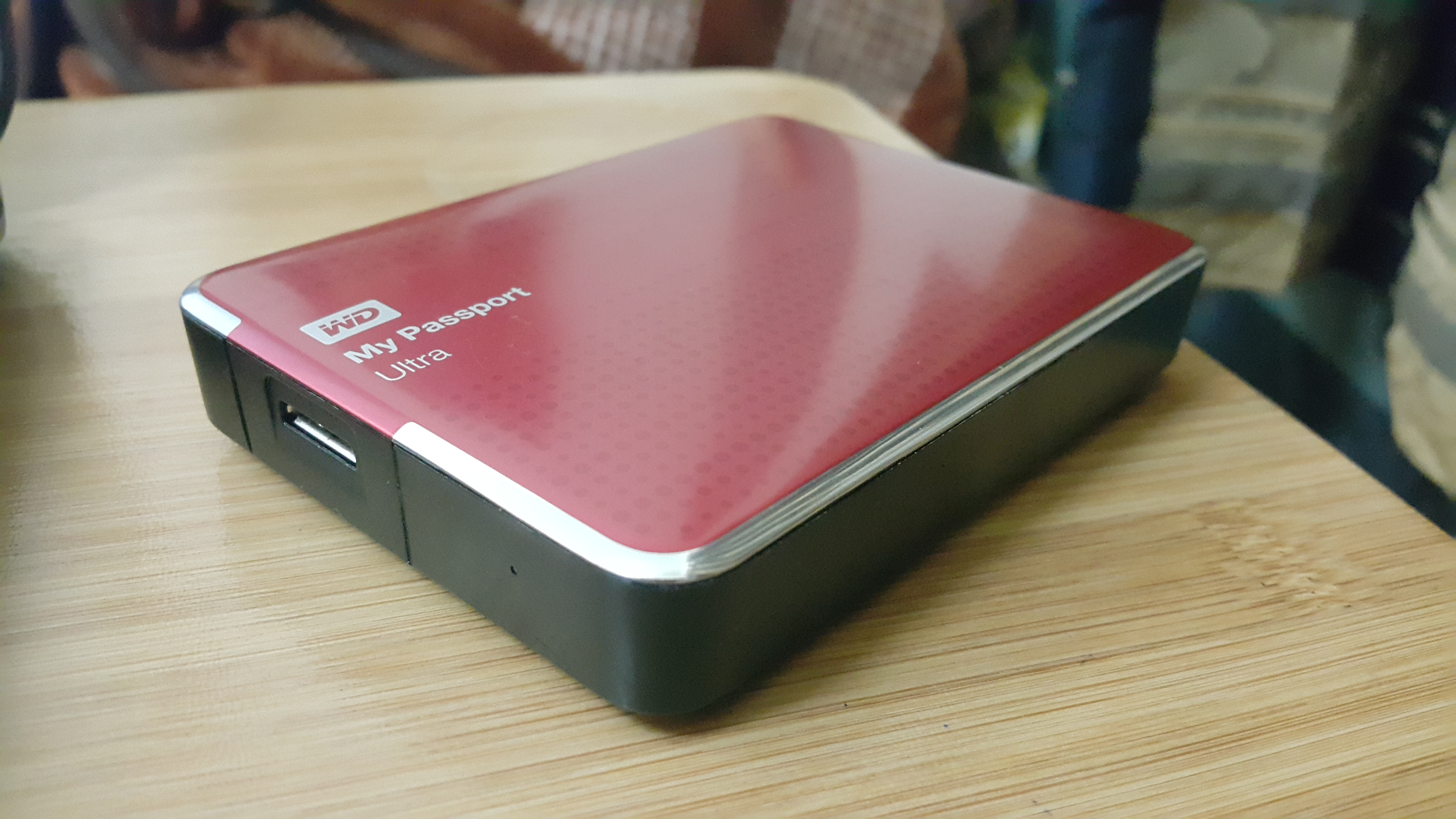 A red Western Digital My Passport Ultra with storage of 2TB. Picture also shows the USB 3.0 port on the left of the drive.